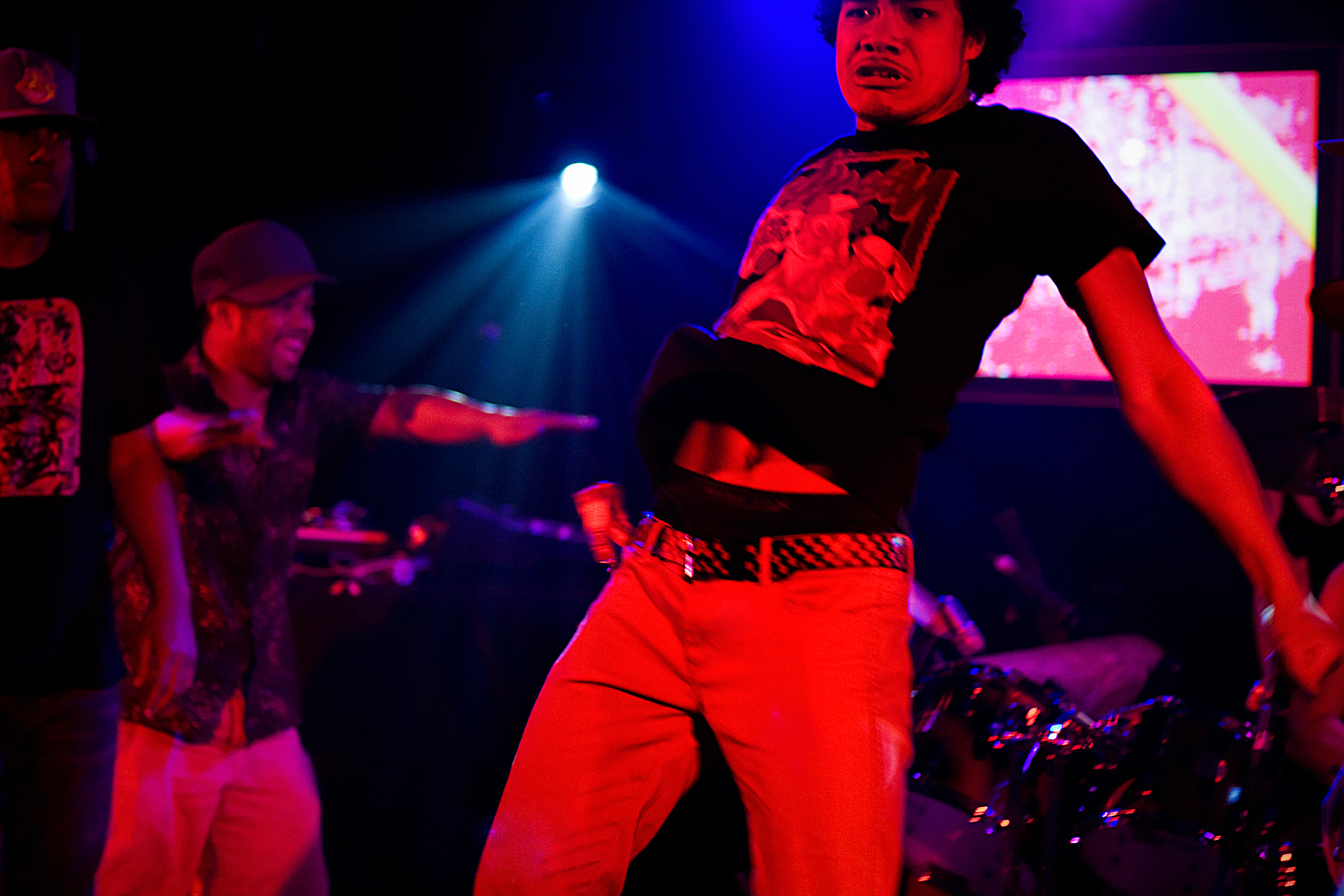 Krumper from Grrilla Step, Dexter (ex Avalanches) new band. Performing at SoCo Cargo shipping container club - St. Kilda, VIC, Australia Read the back story of this photo on my blog